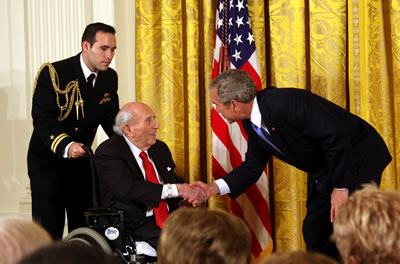 Financier and philanthropist Roy Neuberger receiving the National Medal of Arts from US President George W. Bush in 2007.